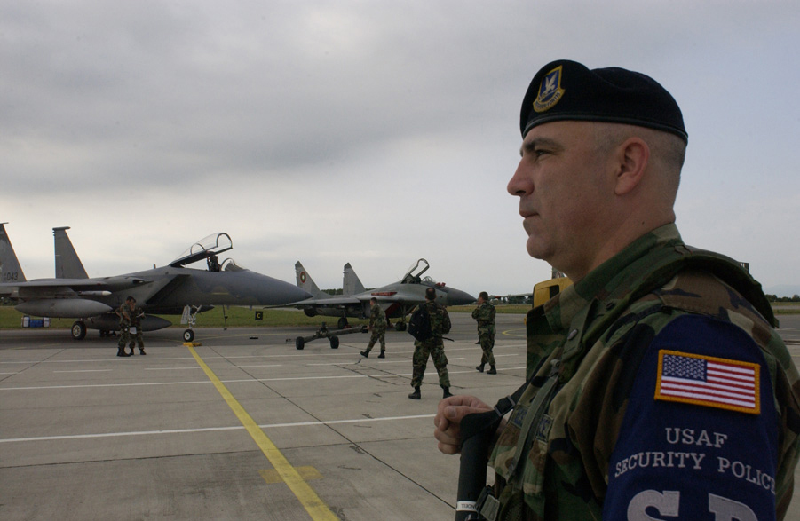 Sentry Lion 2006 Staff Sgt. James Yandell, 173d Security Forces Squadron, stands watch recently on the flight line at 3d Airbase at Graf Ignatievo, Bulgaria. More than 100 members of the 173d Fighter Wing, from Kingsley Field, Ore were in Bulgaria for Sentry Lion 2006, a bi-lateral flying exercise with the Bulgarian Air Force. The two week exercise focused on increasing interoperability with the Bulgarian Air Force. The interaction among pilots, maintainers and all support personnel continues to build a solid foundation for future U.S. Air Force and NATO activities in Bulgaria. (Text by U.S. Air Force)